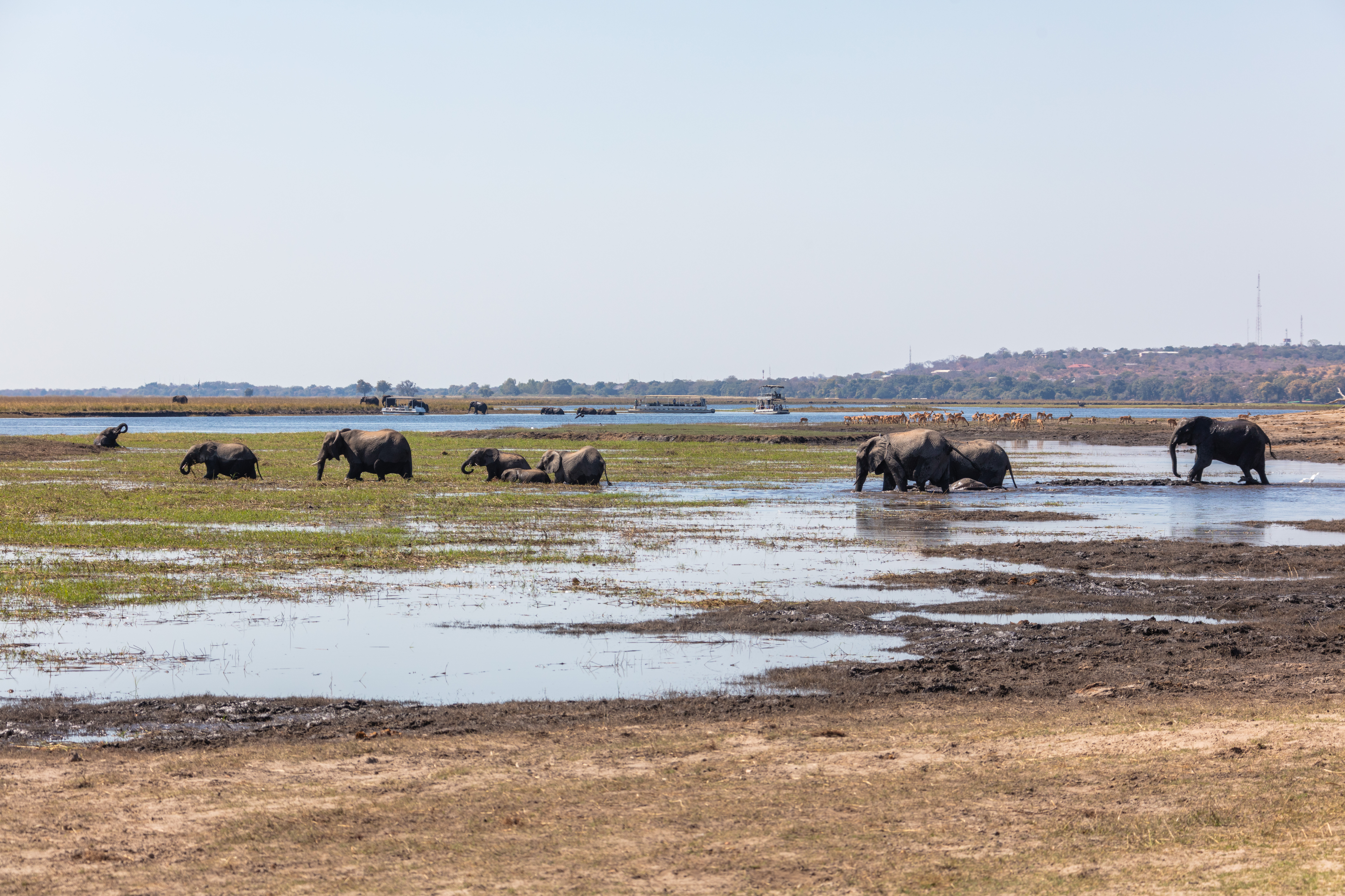 African bush elephants (Loxodonta africana), Chobe National Park, Botsuana